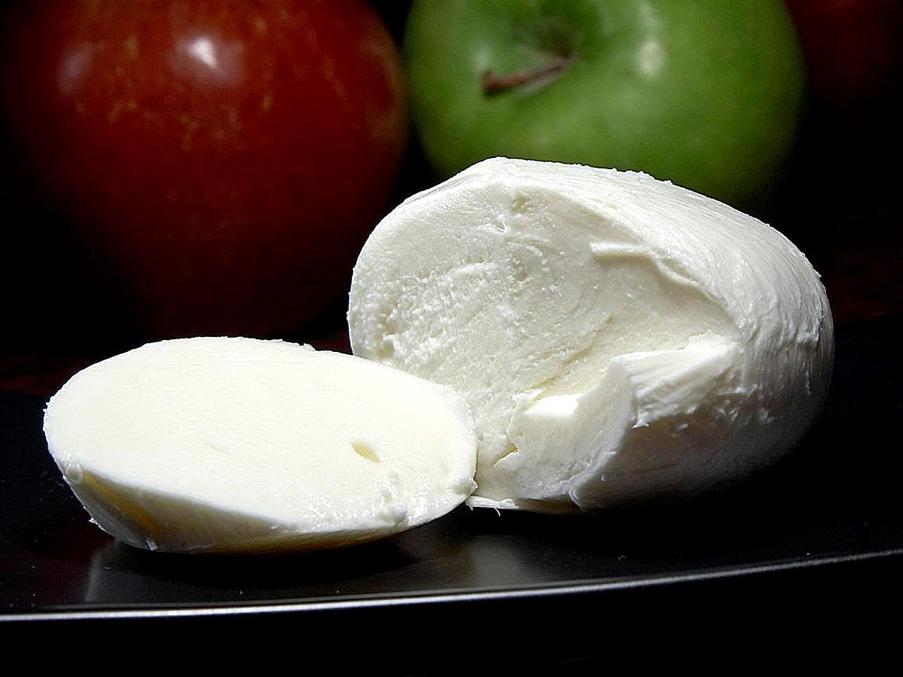 Image title: Mozzarella cheese Image from Public domain images website